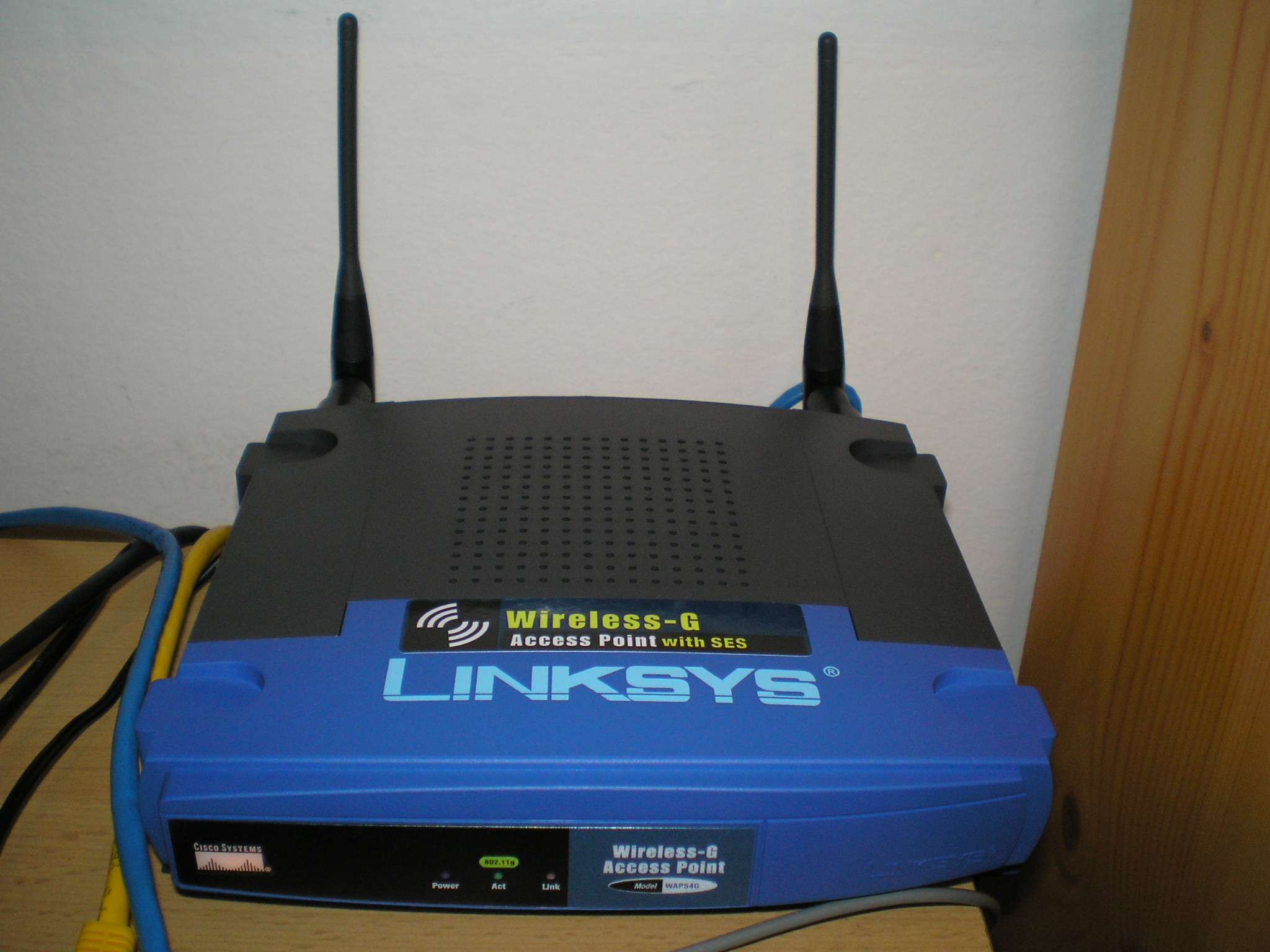 Linksys WAP54G v3.1 802.11b/g wireless access point